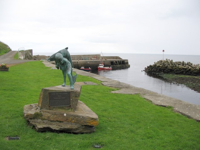 Kenn and the Salmon, a statue in honour of Neil Gunn (see here for details of the plaque), who was born here in Dunbeath